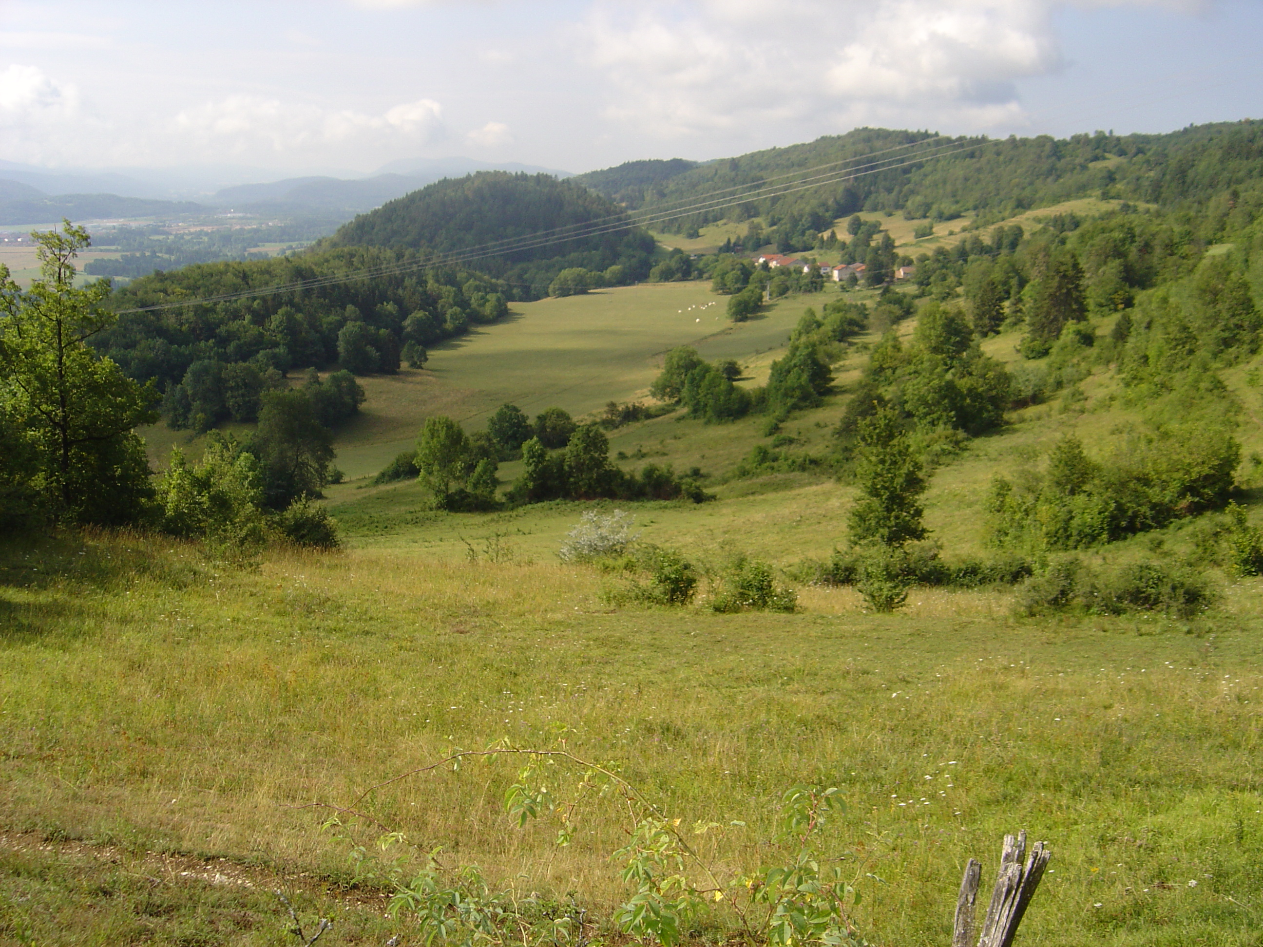 Chougeat-vue du vallon